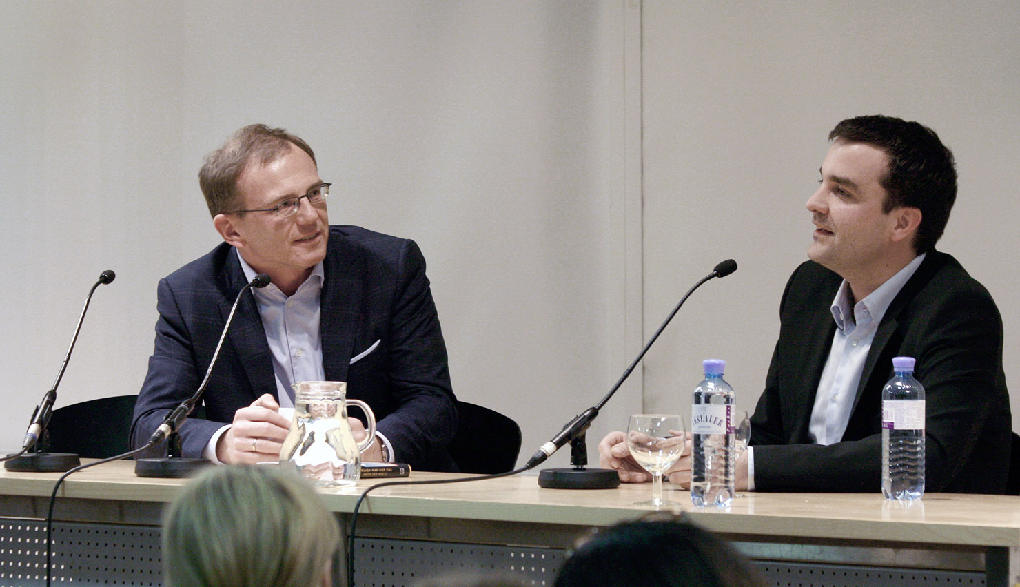 Armin Wolf (l.) and Florian Klenk (r.) at the presentation of Klenks book „Früher war hier das Ende der Welt“ – Reportagen (Vienna).